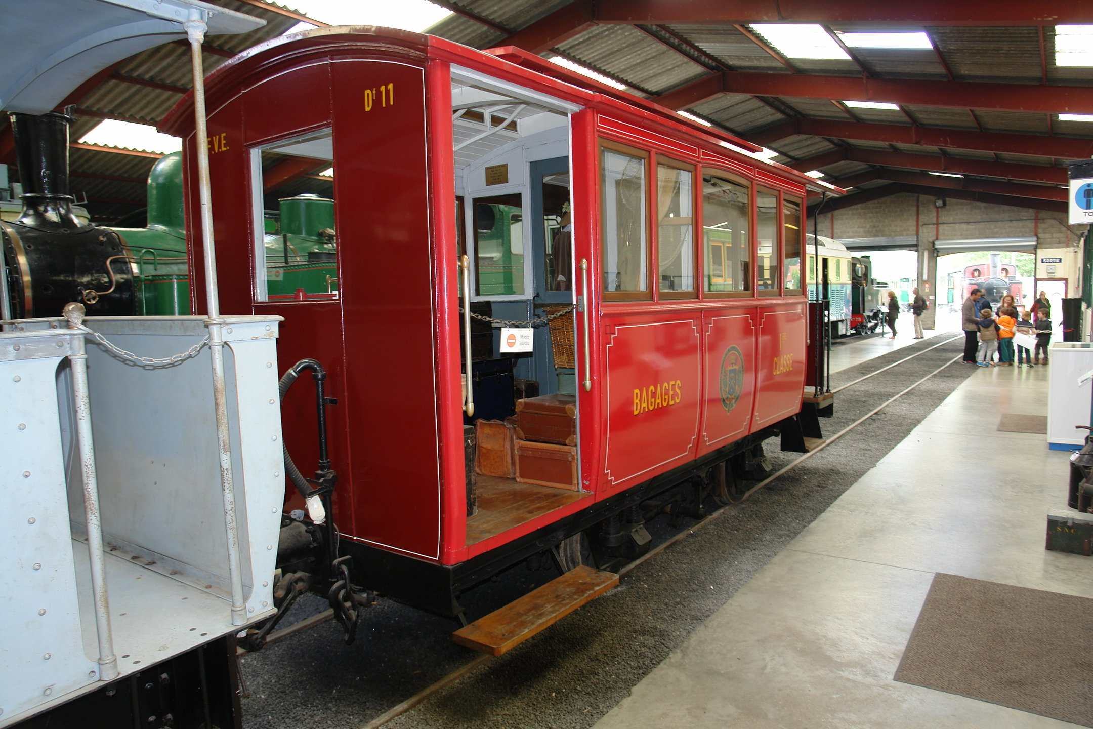 Rolling stock at musée des tramways à vapeur et des chemins de fer secondaires français